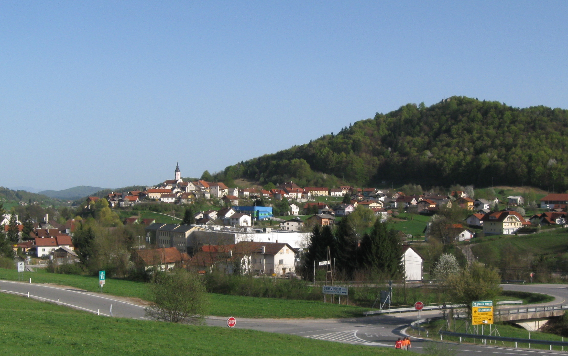 Višnja Gora, settlement in Slovenia